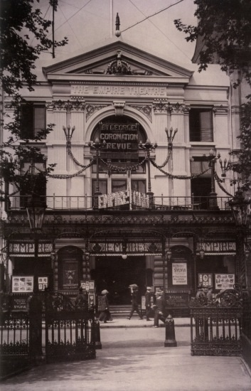 Photograph of a black and white postcard showing the façade of the Empire Theatre in Leicester Square, London. The image was taken in 1911.